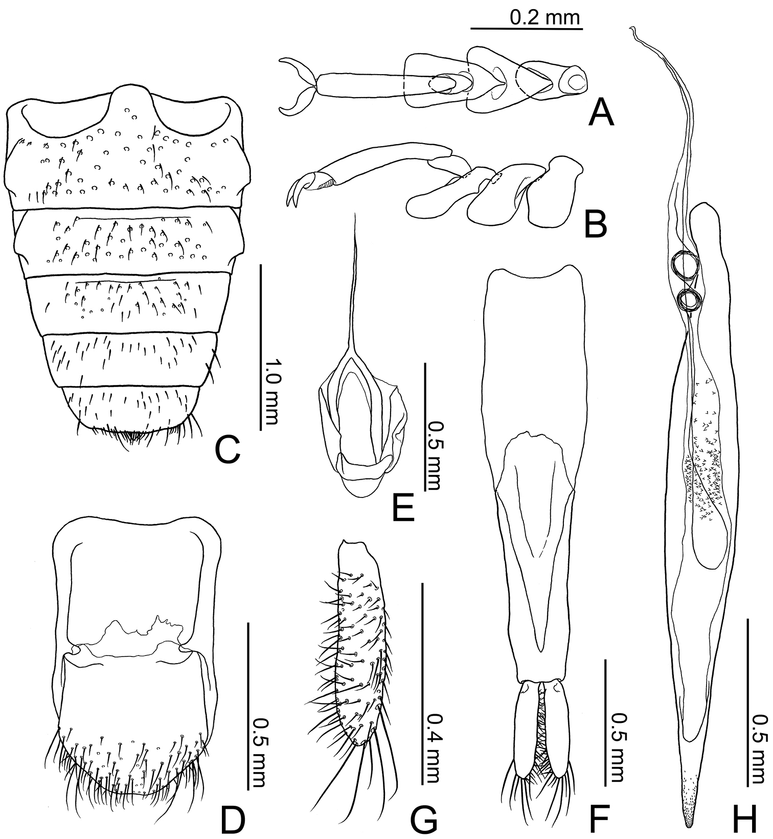 Figure 4; Tarsomeres and abdominal parts including the male genital structures of Borneophanus spinosus gen. et sp. n., holotype. A, B Tarsomeres, dorsal view (A) and lateral view (B) C abdominal ventries D eighth abdominal segments, ventral view E spiculum gastrale, ventral view F tegmen, ventral view G paramere, dorsal view H median lobe and internal sac, ventral view.